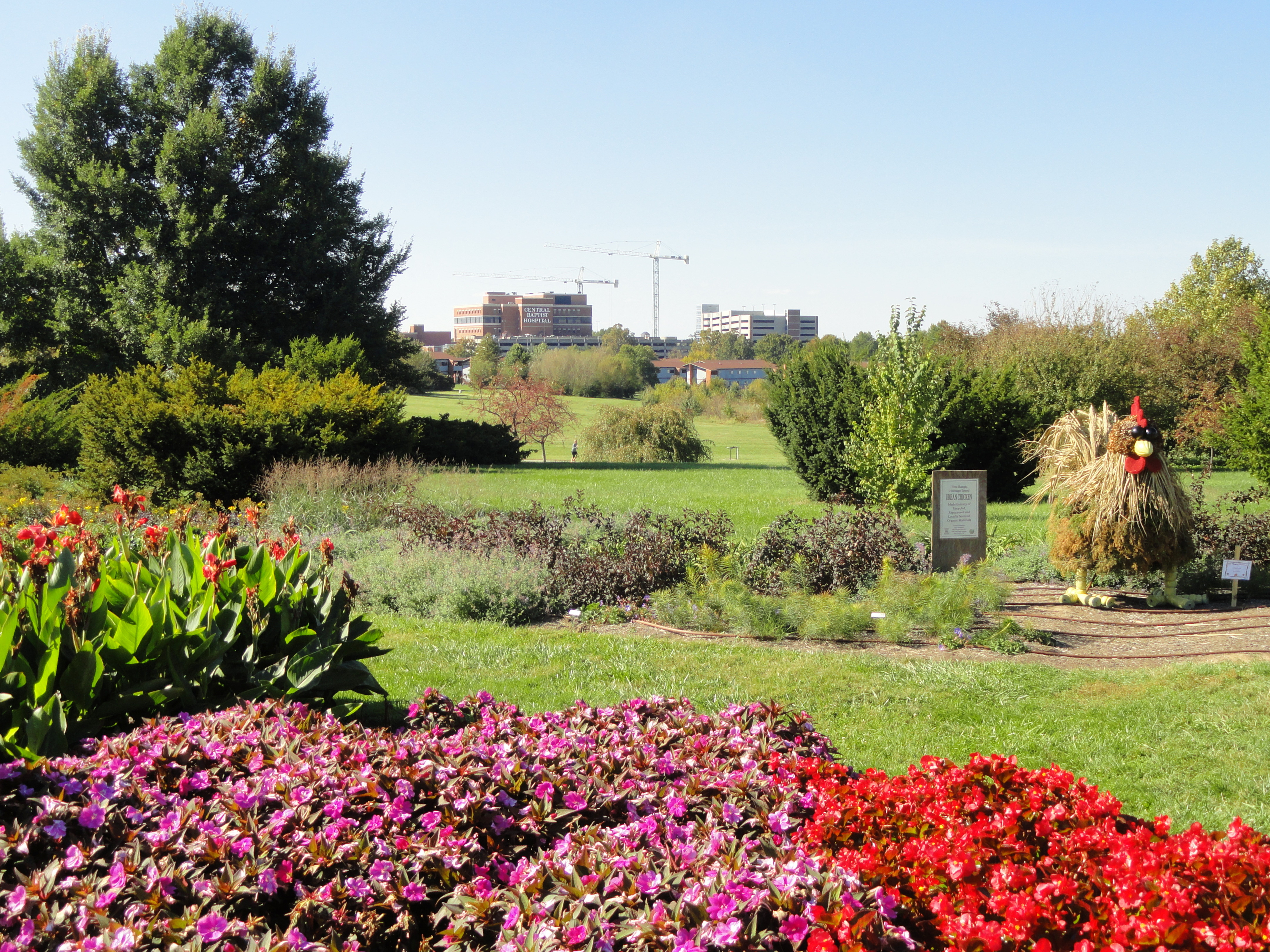 University of Kentucky Arboretum, Lexington, Kentucky, USA.